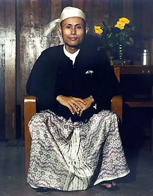 Aung San in color photograph